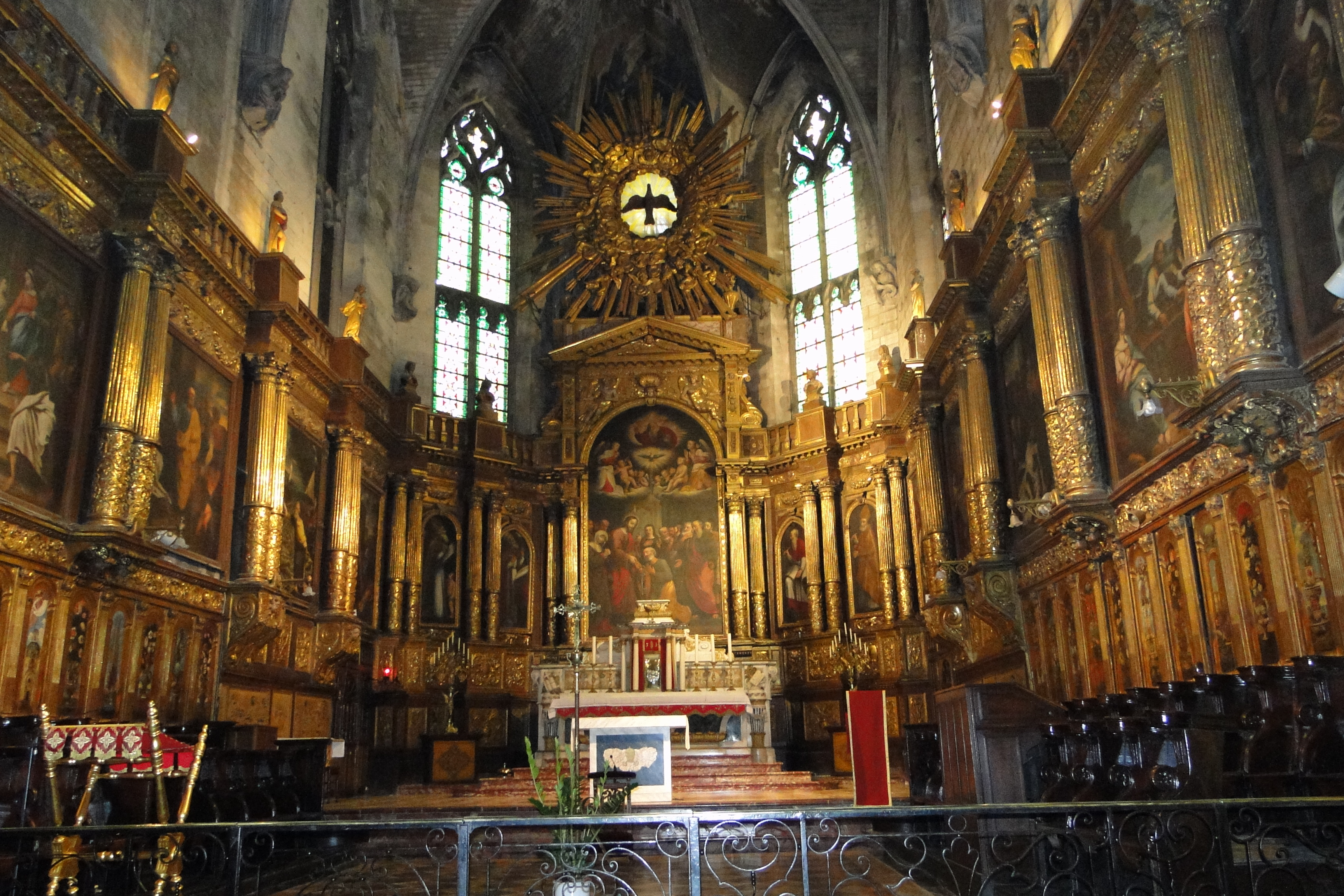 St. Peters Church in Avignon (France) - High altar & Choir